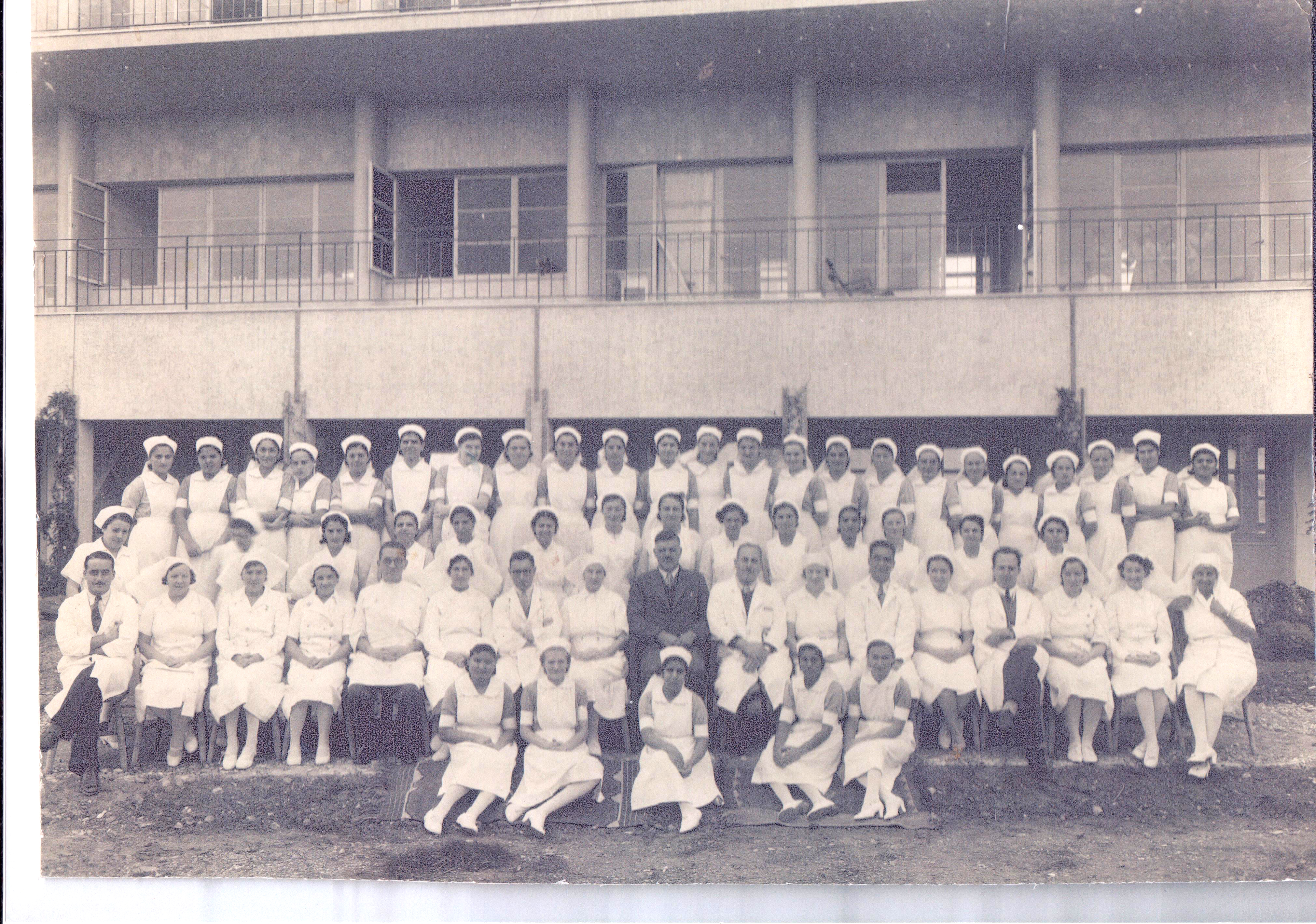 Graduating nurses from Haifa Teaching Hospital, circa 1939; Centre: Director, Dr John Macqueen.